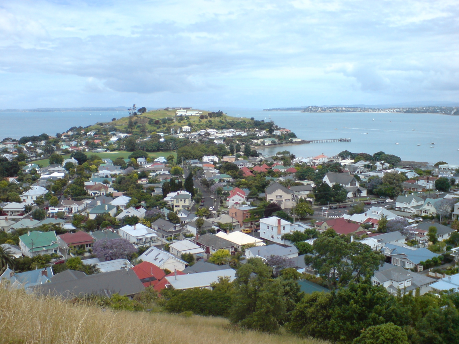 Looking over North Head and eastern Devonport in North Shore City, New Zealand.